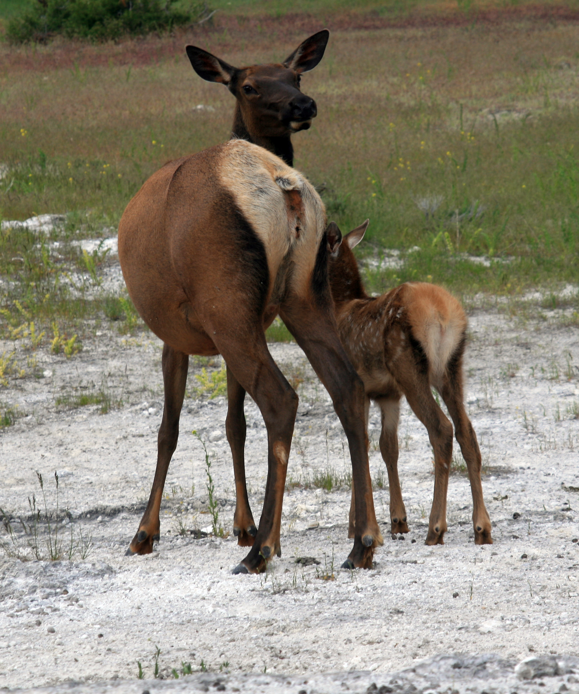 Elks,Cervus canadensis at Mammoth Hot Springs, Yellowstone National Park, Montana, US.